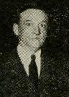 Major League Baseball executive George Washington Grant